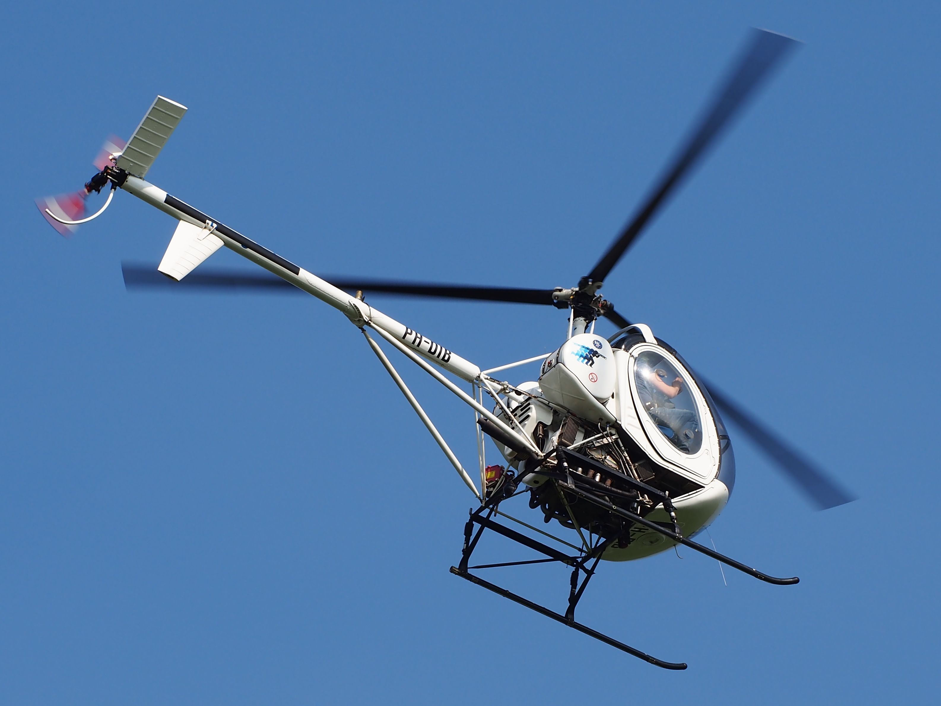 Photographed at Hilversum Airport (ICAO EHHV), The Netherlands.